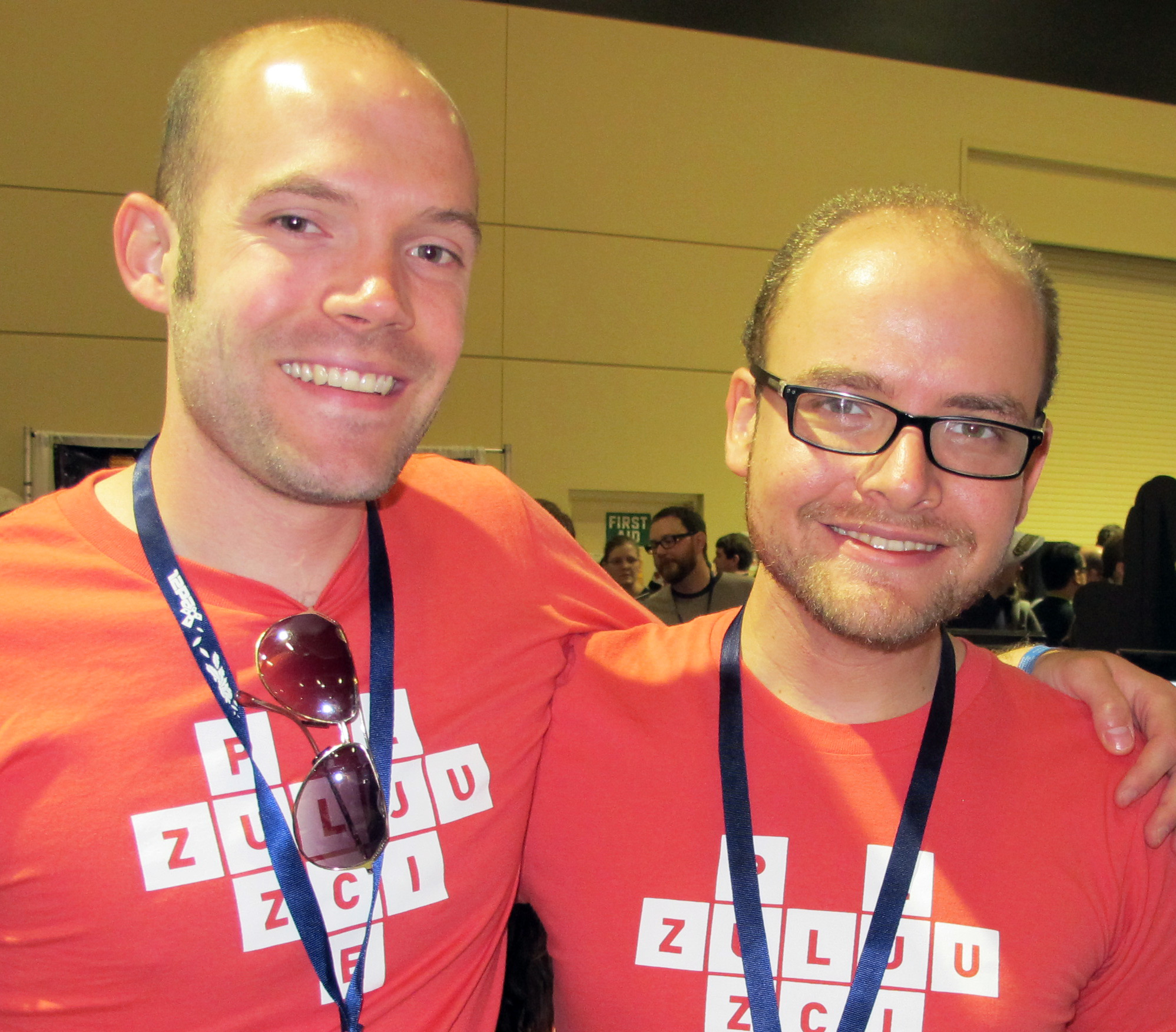 Puzzlejuice creators Greg Wohlwend (left) and Asher Vollmer (right) at the 2012 PAX 10 showcase